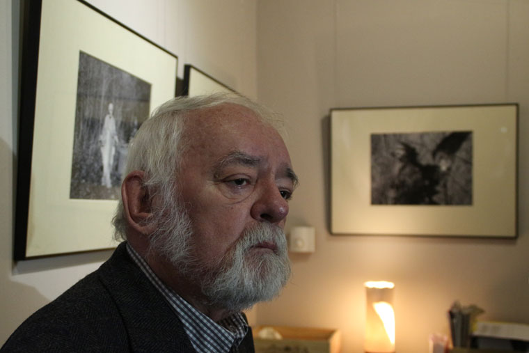 Kálmán Kecskeméti photographer